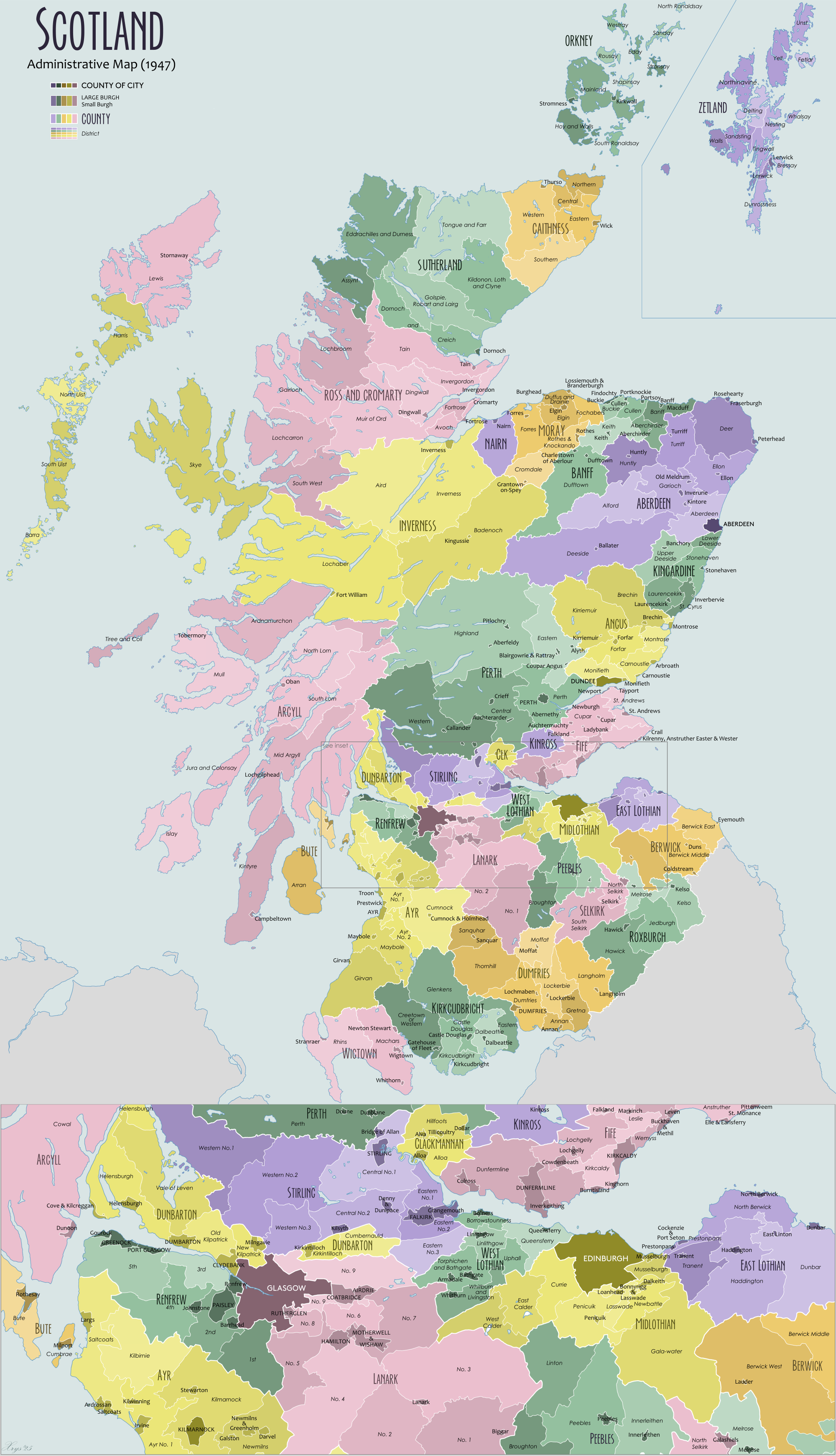 Administrative map of Scotland in 1947. Showing Counties and Districts, Counties of Cities, Large and Small Burghs